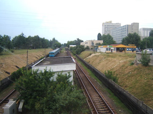 Chernigivska metro station upper vestibule view